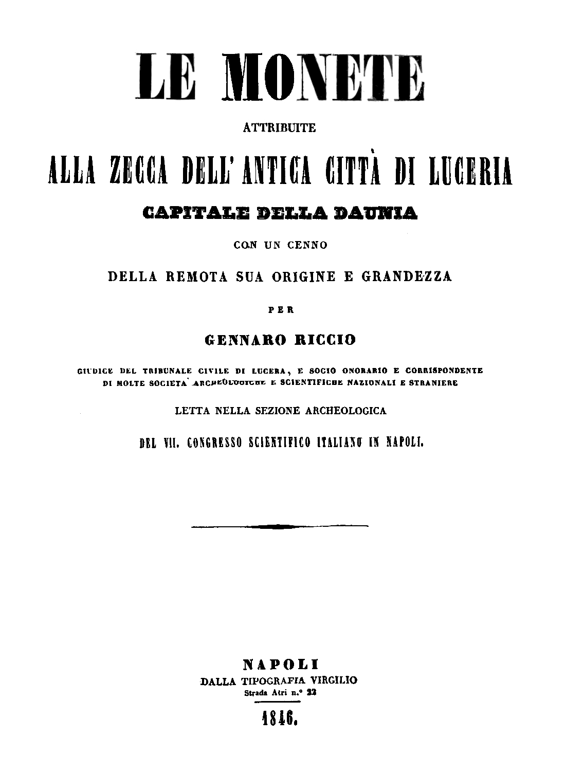 Title page of "Le monete attribuite alla zecca dell'antica città di Luceria" (i.e. Coins attributed to ancient city of Lucera), by Gennaro Riccio, (in Italian)